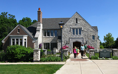 Wade Center